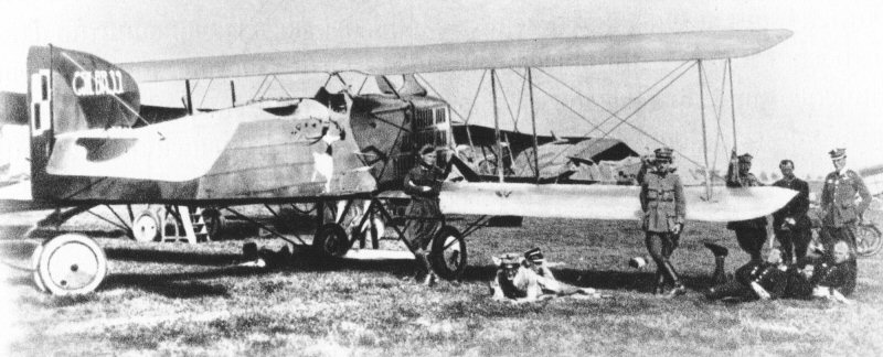 Polish Air Forces Breguet 14 stationed on the Kiev airfield during the Kiev Offensive in the Polish-Bolshevik War of 1920